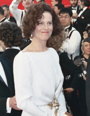 Sigourney Weaver with her father Pat Weaver on the red carpet at the at the 61st Annual Academy Awards, 1989. Scanned from the original 35MM film negative.